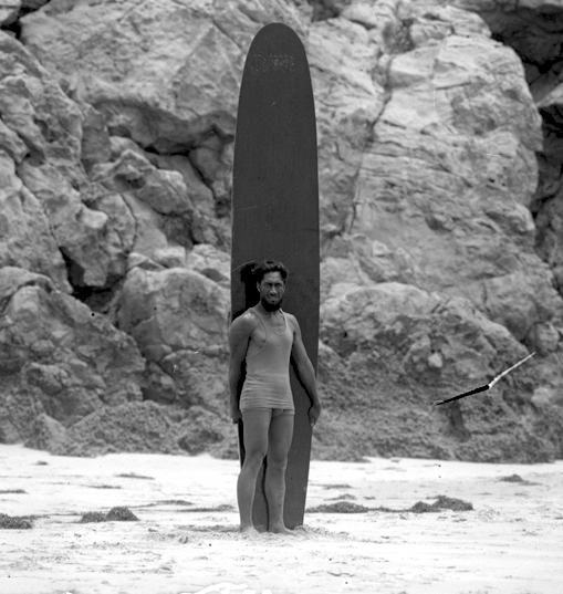 Title: Surfer and Olympic swimmer Duke Kahanamoku standing on beach with surfboard in Los Angeles, California, circa 1920.